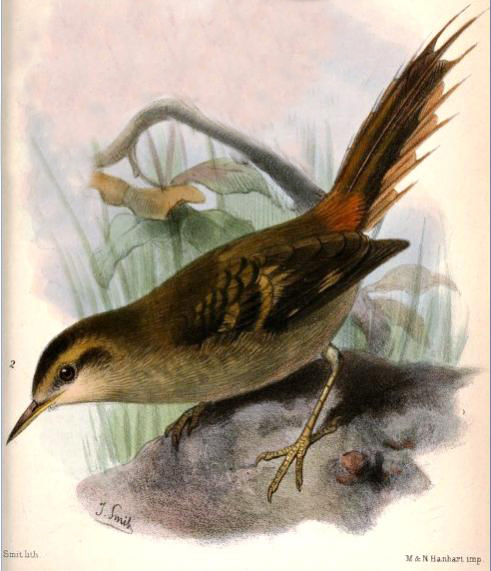 « Oxyurus masafuerae » = Aphrastura masafuerae (Masafuera Rayadito)